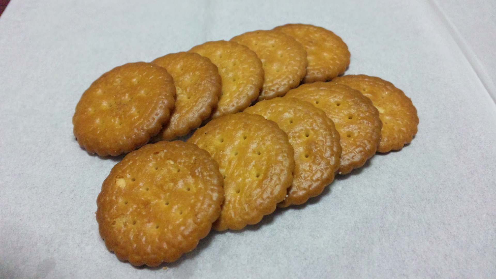 Millet cookie(The cake sold in a part areas of Japan)